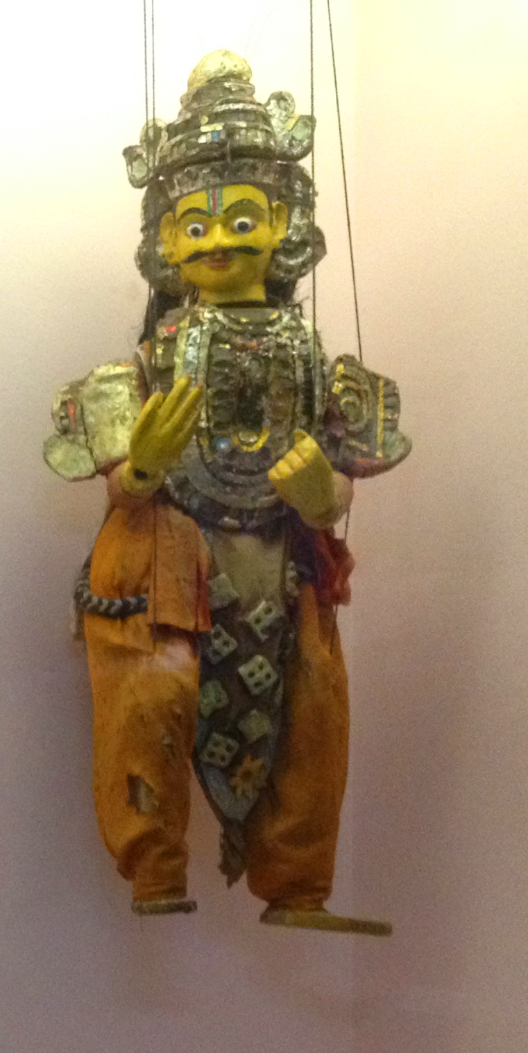 Sakhi Kandhei (String puppets of Odisha) at Raja Dinkar Kelkar Museum, Pune